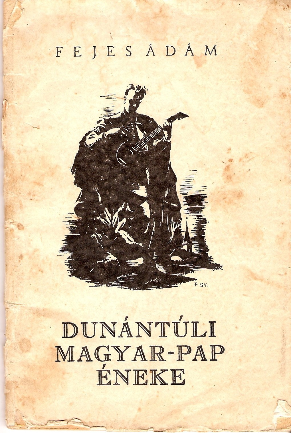 Dunántúli Magyar Pap Éneke - Poems by Fejes Ádám, Bookcover